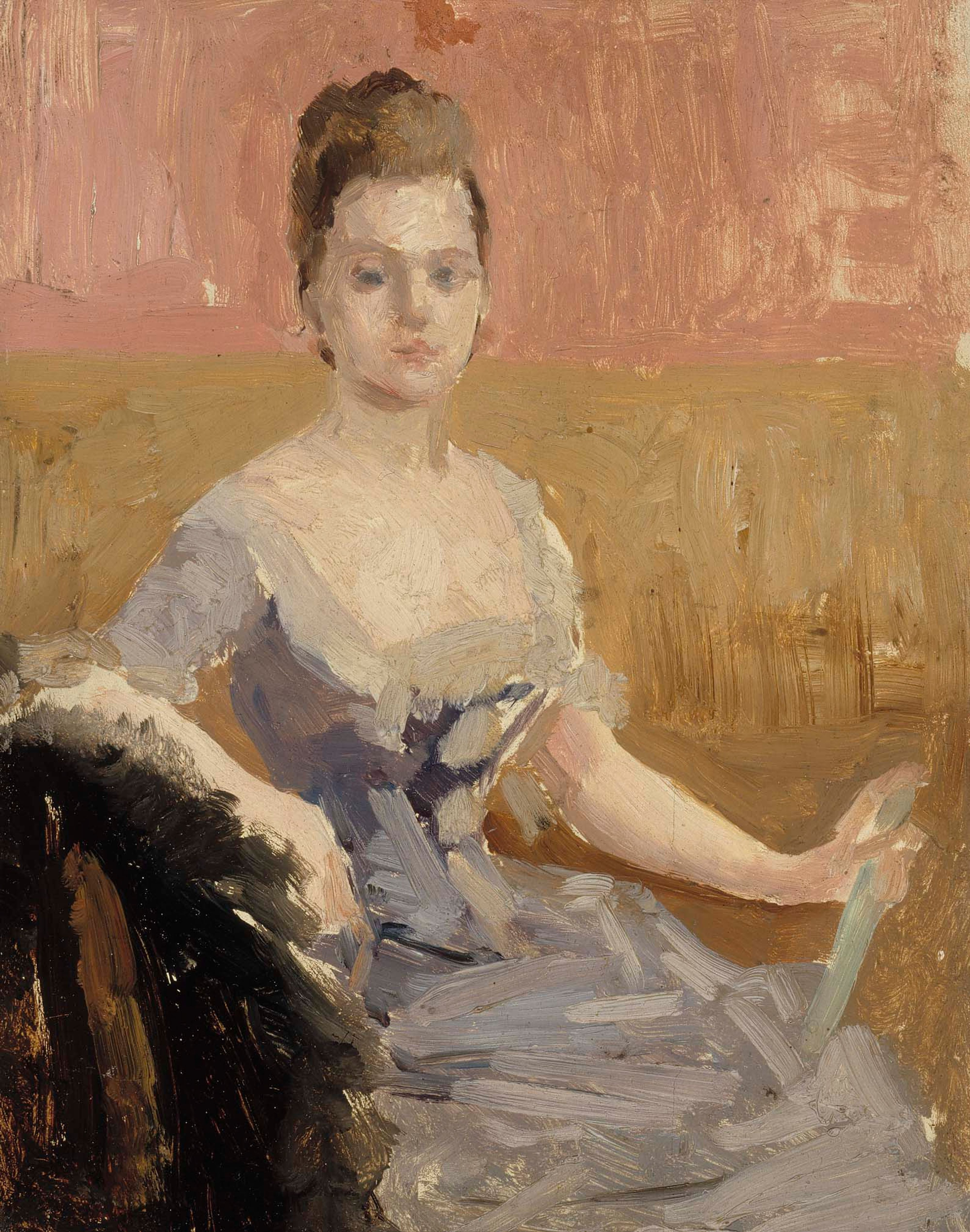 Augusta Lewenhaupt by Albert Edelfelt, 1887